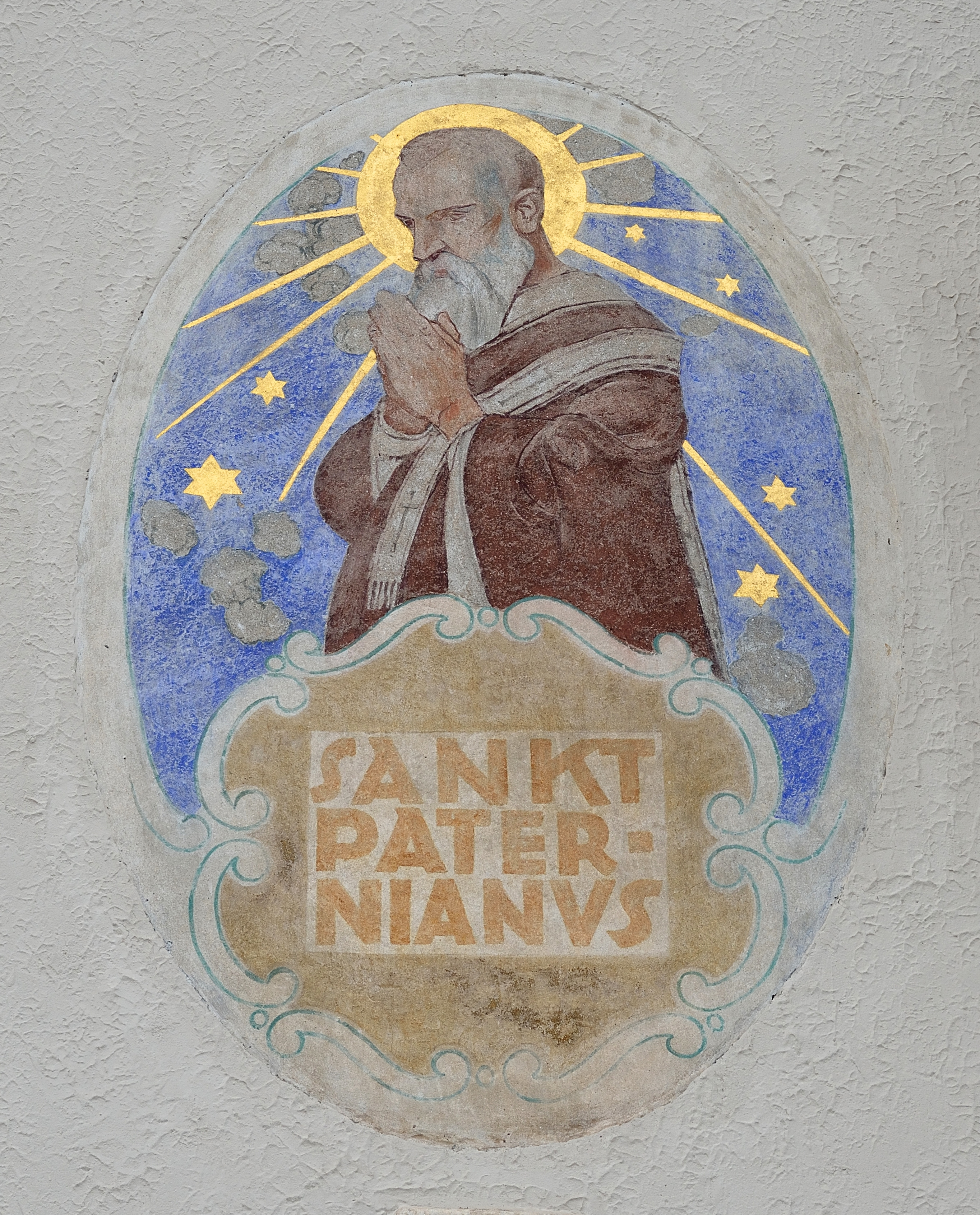 Rectory in Paternion, Carinthia. Medaillon with an image of Saint Paternion by Leopold Resch.